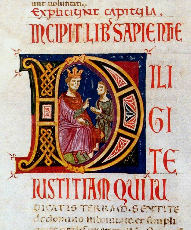 Marco Berlinghieri A page from the Bible (Codex №1) 1248-1250 Palazzo della Curia Arcivescovile, Lucca